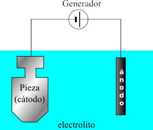 Principle of electroplating: a generator creates an electrical current that drags ions of the electrolyte to the cathod (elemtn to be plated).